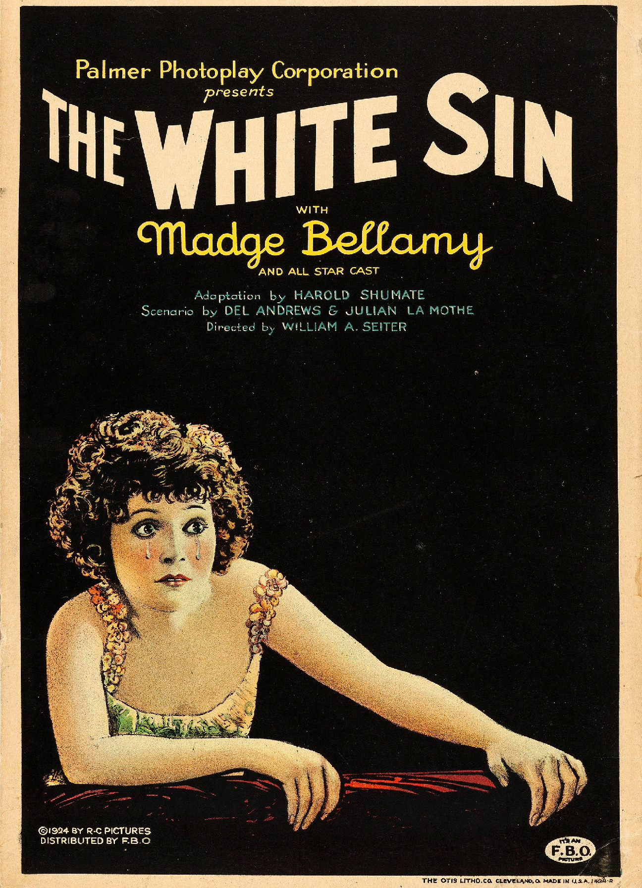 Window poster for the 1924 film The White Sin.